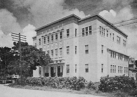 Saipan Public Hall in the Japanese Period